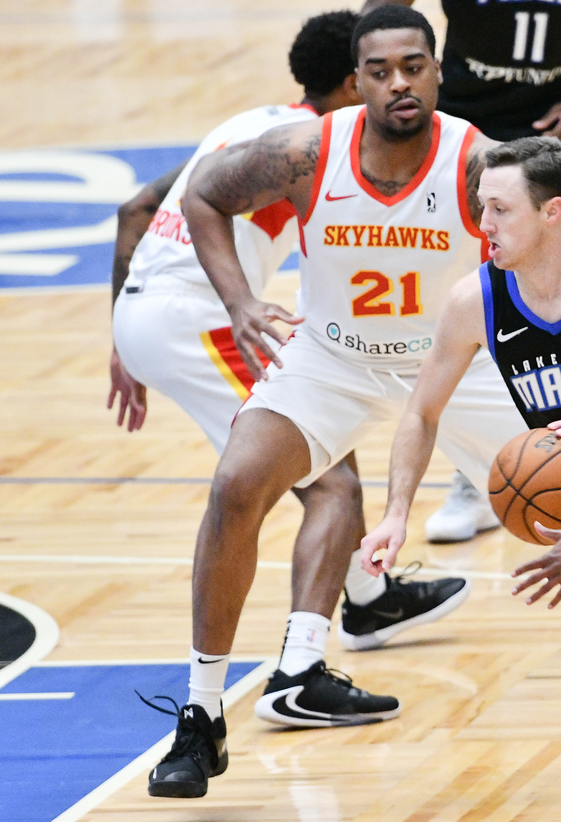 Josh Magette. Lakeland Magic vs College Park Skyhawks. RP Funding Center. Lakeland, Fla. Nov. 16, 2019. (Photo by Tom Hagerty.)